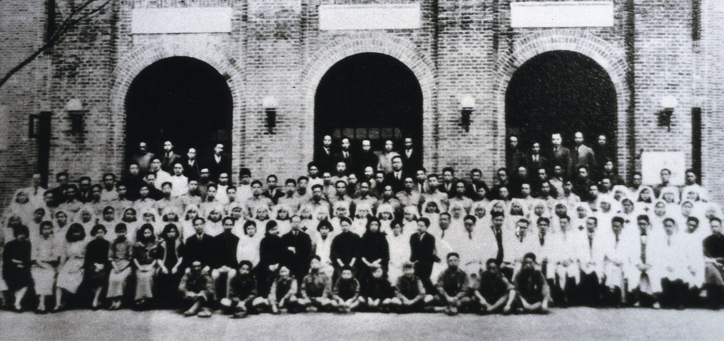 Soong Ching-ling and Wounded Soldier Hospital staff were in Shanghai Jiaotong University.